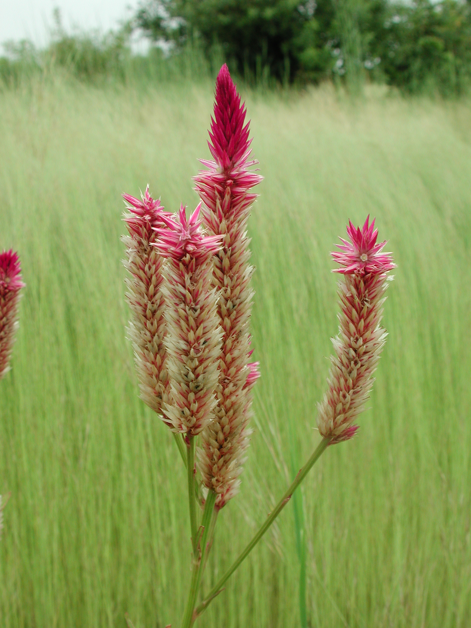 Celosia argentea, Burkina Faso. Specimen collected as Schmidt 1144 in Herbarium Senckenbergianum (FR).